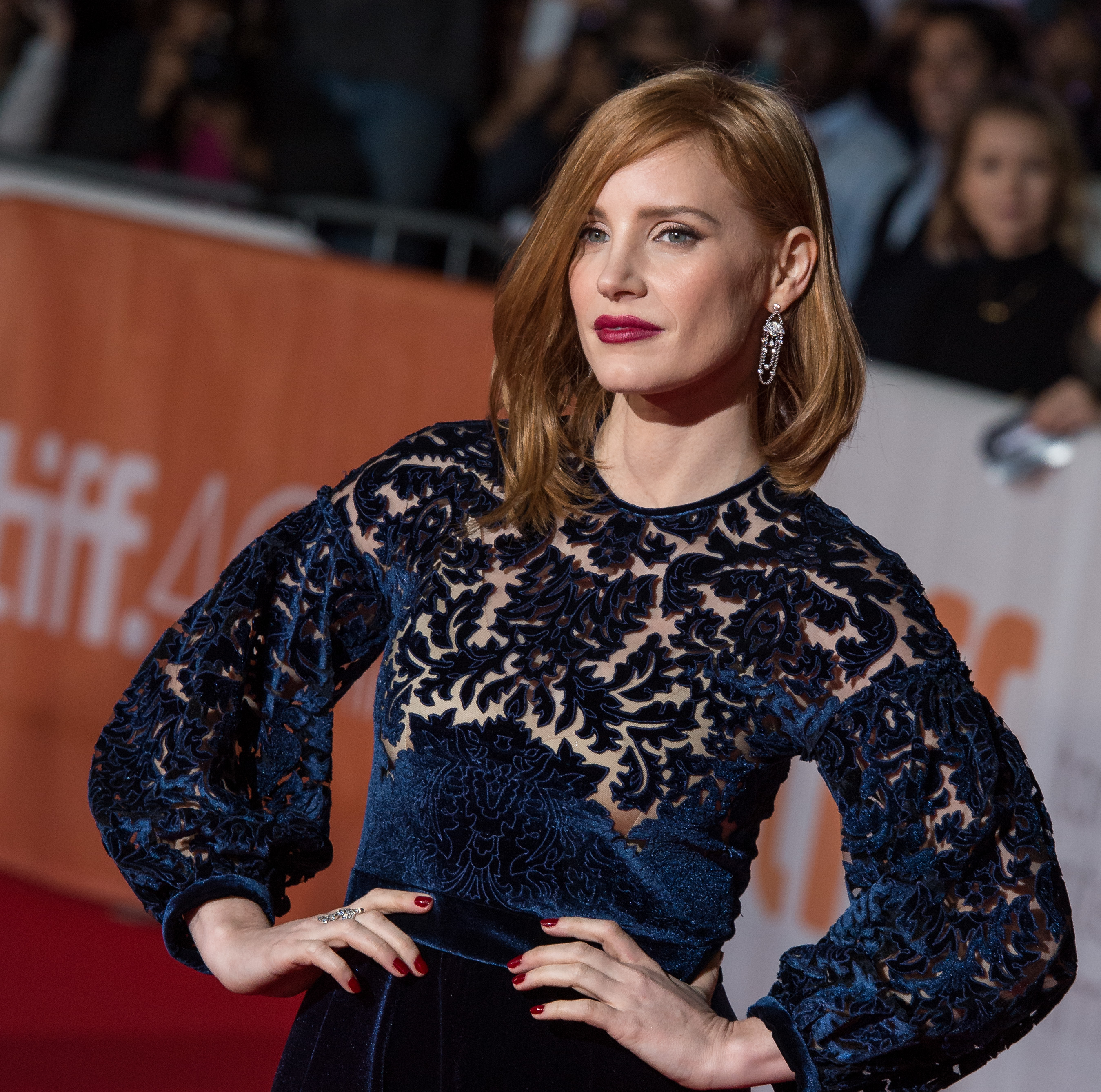 Actress Jessica Chastain attends the world premiere for "The Martian” on day two of the Toronto International Film Festival at the Roy Thomson Hall, Friday, Sept. 11, 2015 in Toronto. NASA scientists and engineers served as technical consultants on the film. The movie portrays a realistic view of the climate and topography of Mars, based on NASA data, and some of the challenges NASA faces as we prepare for human exploration of the Red Planet in the 2030s.